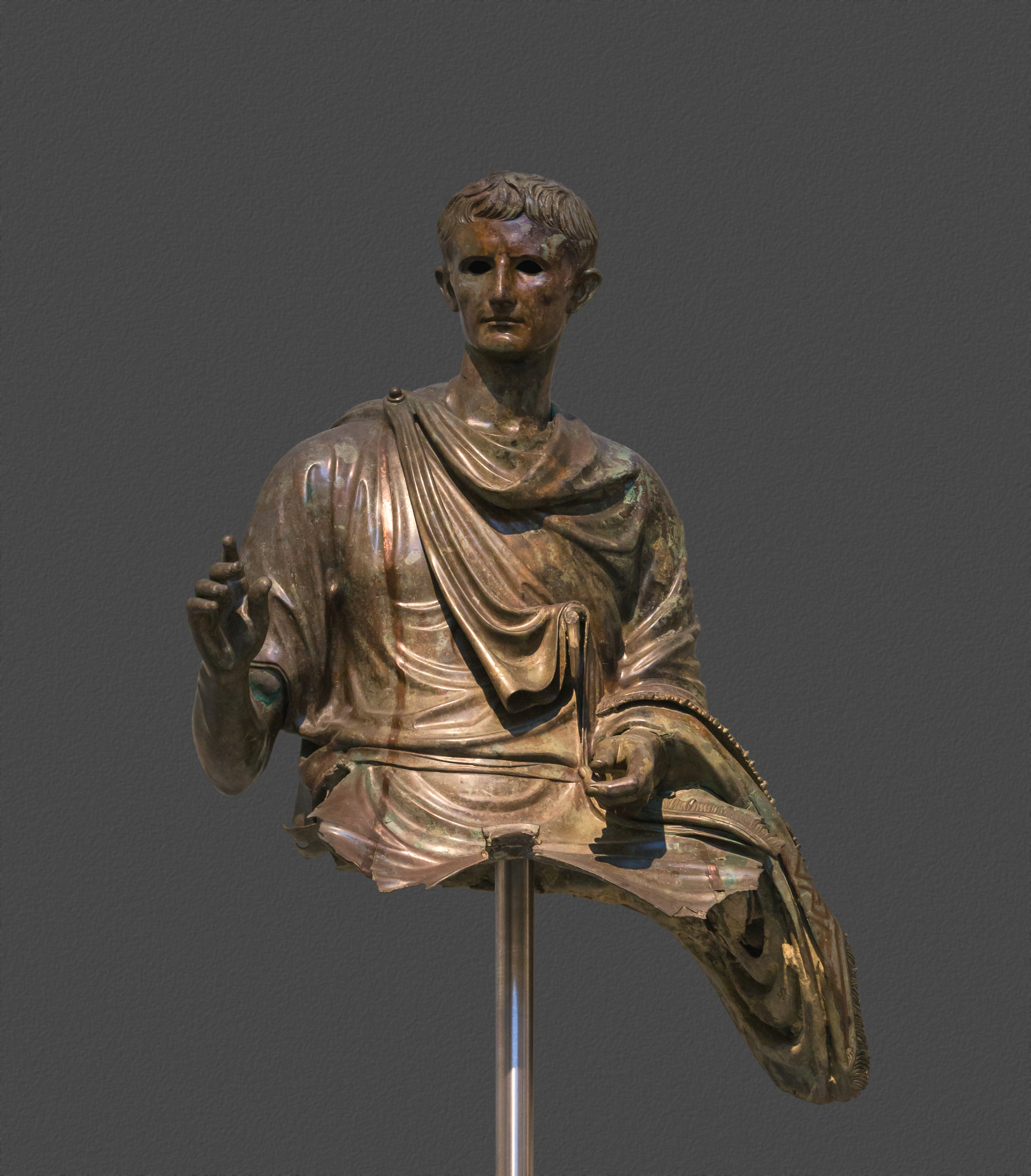 Statue of the emperor Augustus (29BC - AD 14). Bronze. Found in the Aegean sea between the islands of Euboea and Agios Efstratios. The emperor is depicted in mature age, mounting a horse. He wears a tunica decorated with a meander pattern. Iconographic features of the Prima Porta gesture of official greeting. The hilt of his sword can be seen below the left hand, in which he held the horse's reigns. On the bezel of his finger-ring a staff of divination (lituus) is engraved, symbolizing the supreme religious office of Pontifex Maximus, assumed by Augustus in 12 BC. 12-10 BC